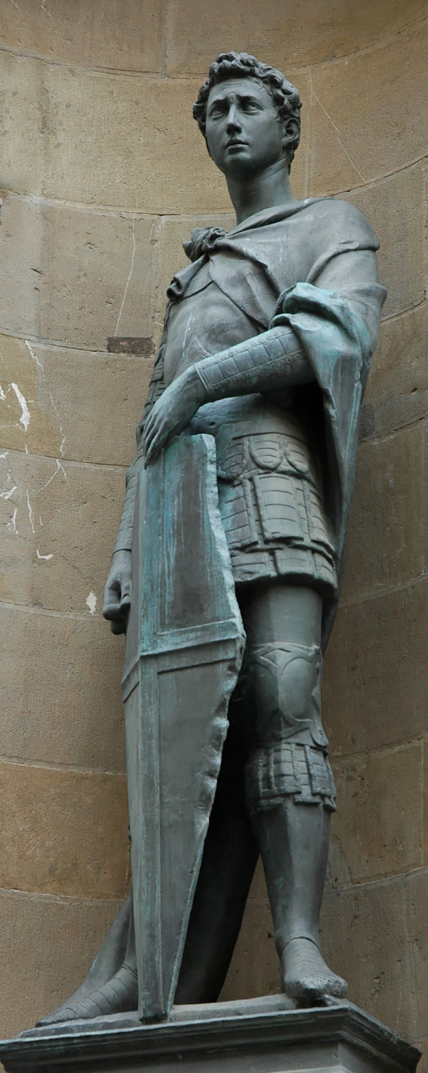 St George,bronze copy of the statue, orginally in marble (original now in the Museo del Bargello), commissioned by the Arte dei Corazzai (guild of armorers). Orsanmichele, Florence.